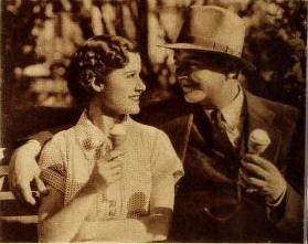 Dorothy Wilson e James Dunn nel film Bad Boy